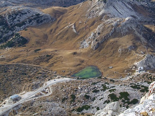 Passo Valparola seen from Lagazuoi Picture taken by user Idéfix, october 31, 2006